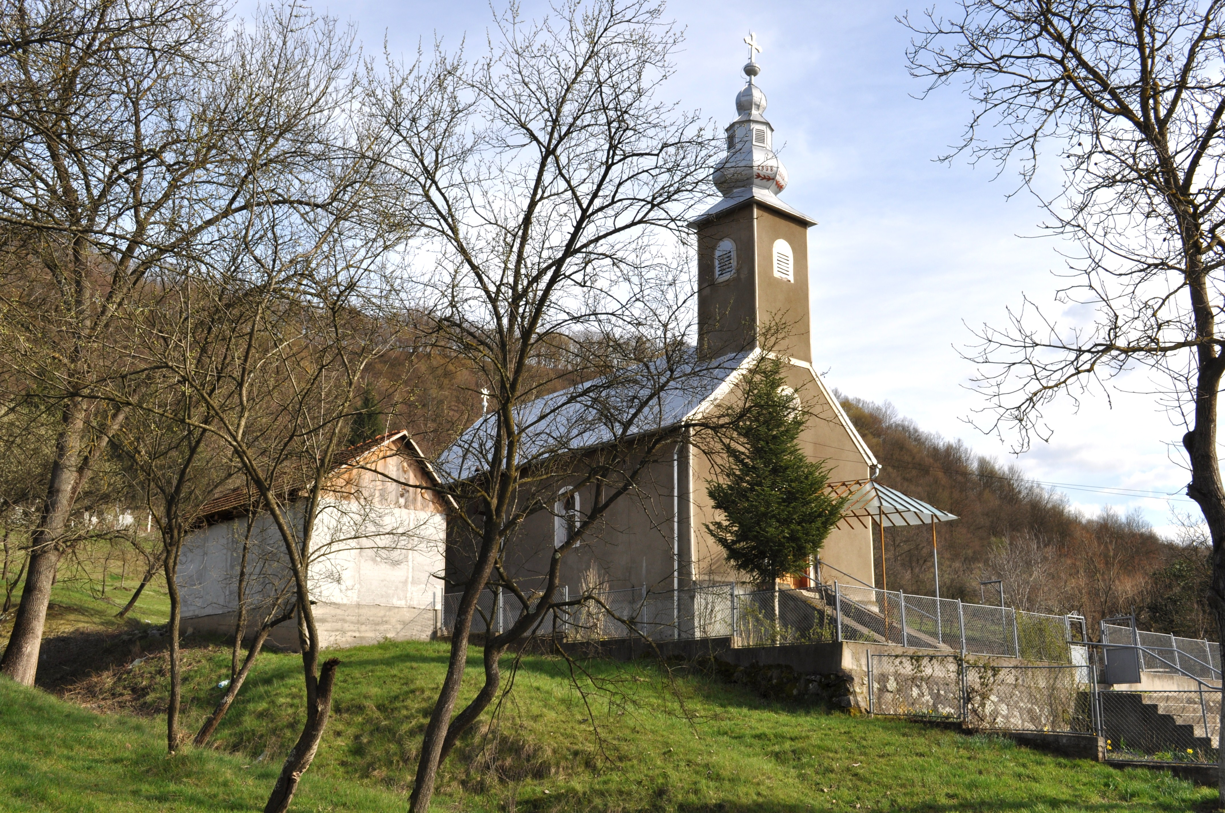 Wooden church in Iosășel, Arad county, Romania